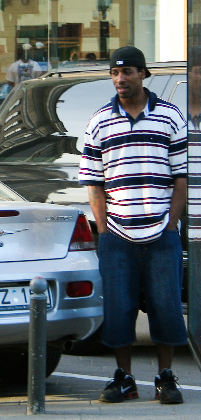 DeJuan Collins, basketball player of BC Žalgiris Kaunas